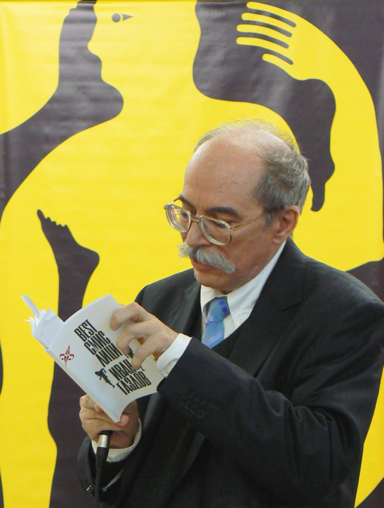 Bulgarian artist Ivan Gazdov, on the presentation of his poetical book "BESTsmislici"